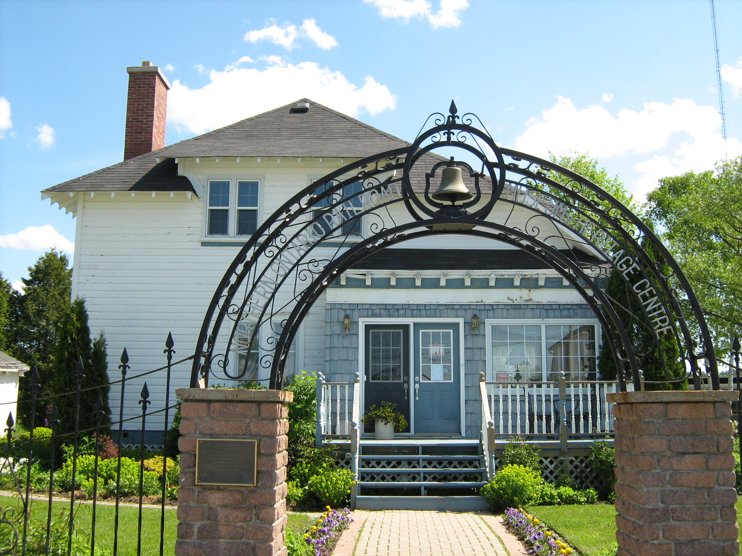 A railroad superintendent's house built in 1916. It is now being used as the Northern Ontario Railroad Museum and Heritage Centre